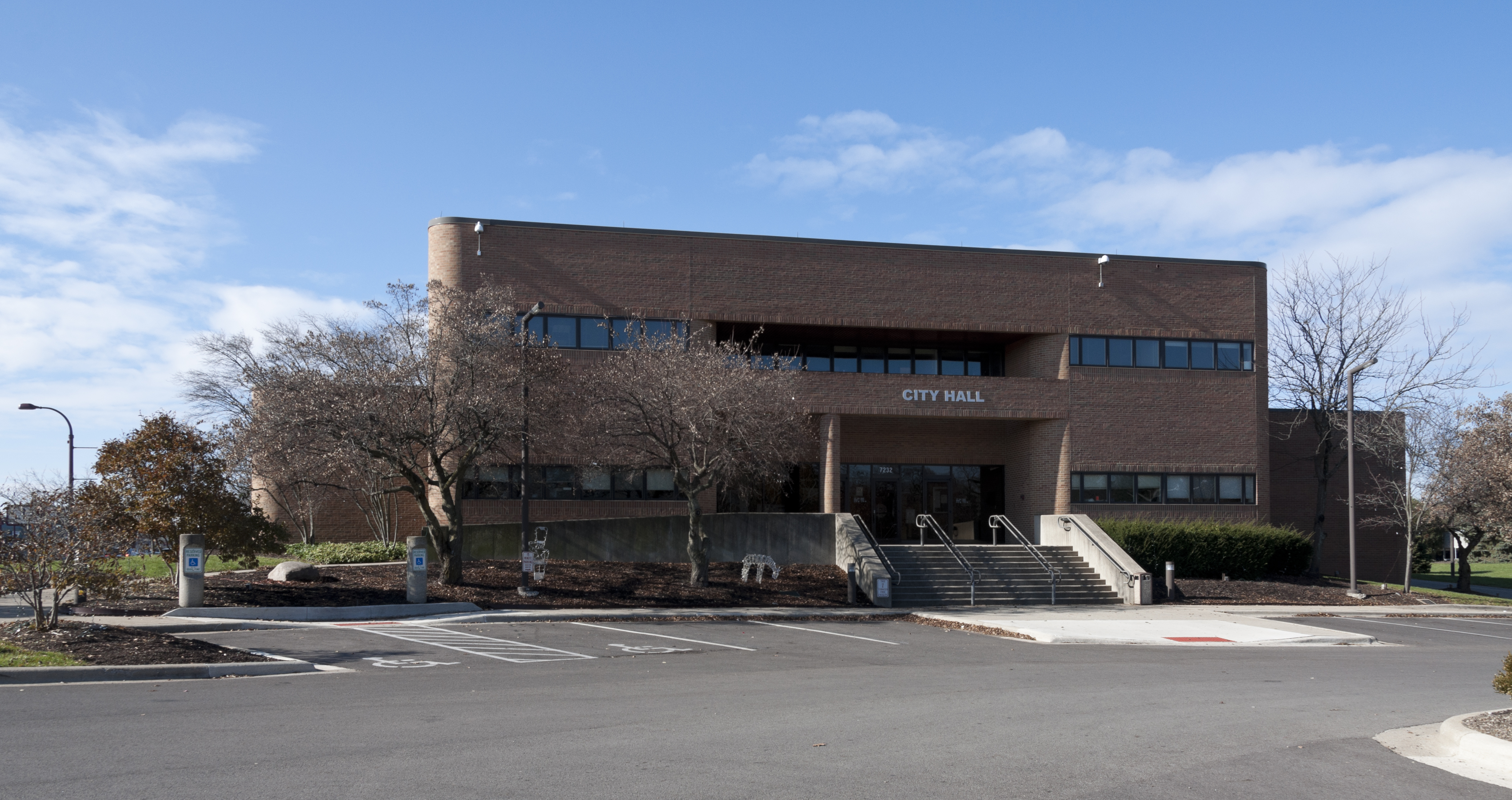 Reynoldsburg City Hall in Reynoldsburg, Ohio as seen from the east.